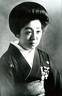 sei yoshimoto